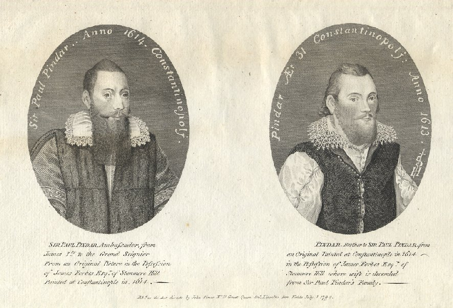 Double engraving depicting Sir Paul Pindar and his brother Ralph. Sir Paul Pindar was a merchant and from 1611-1620 was Ambassador of King James I to the Ottoman Empire. Engraved by W. T. Fry Drawn by Thomas Trotter Published by John Simco 1784